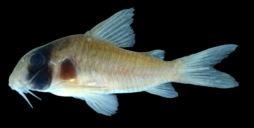 Corydoras griseus GUY14-26 41mm